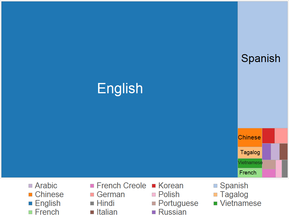 Tree map of languages spoken in the United States by number of speakers (note: "Chinese" is a family of languages) from United States. Modern Language Association. Retrieved on September 2, 2013.